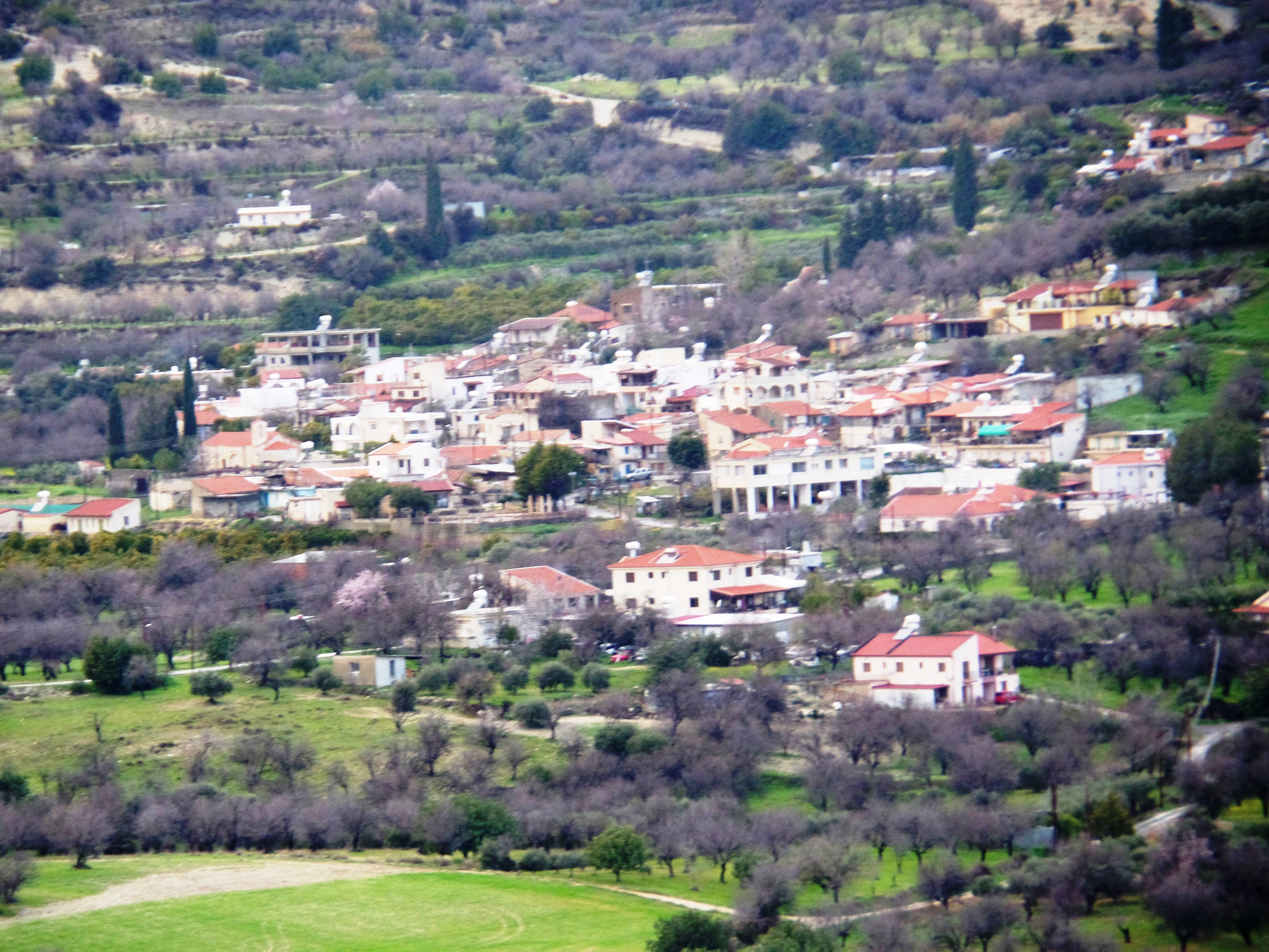 View of Limnatis.